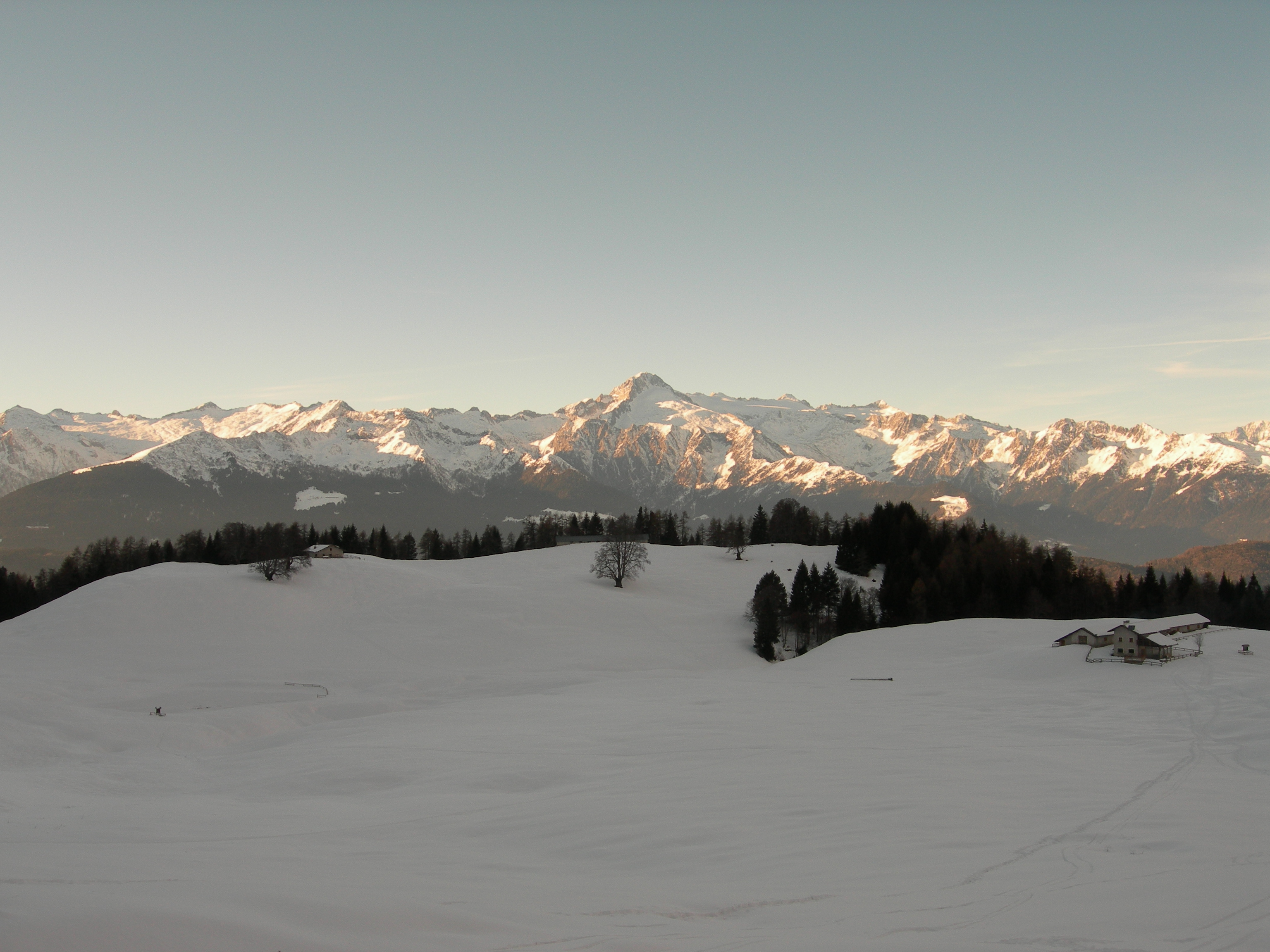 Alps near Stabio, Ticino, Switzerland